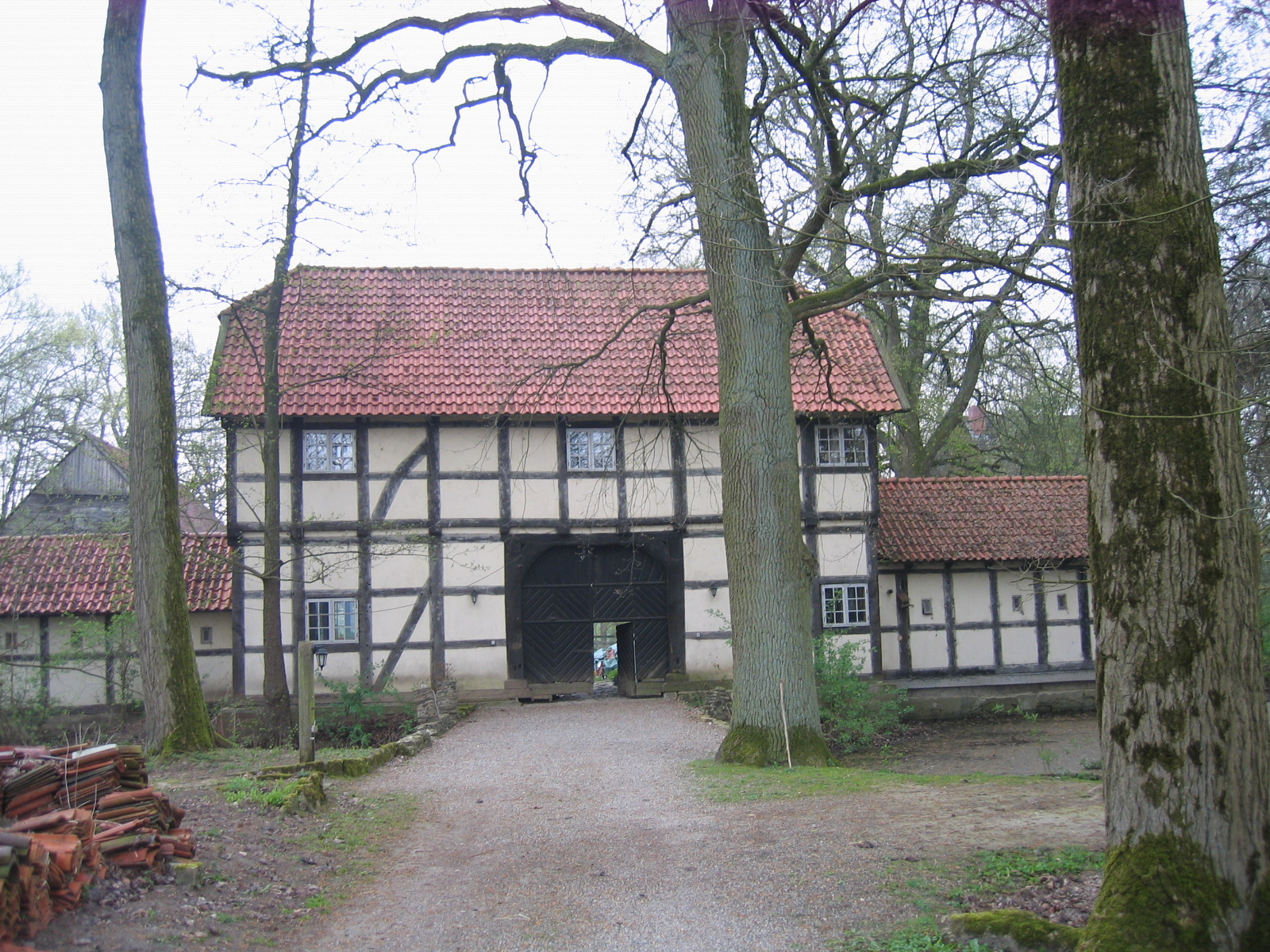 Spenge, District of Herford, North Rhine-Westphalia, Germany.